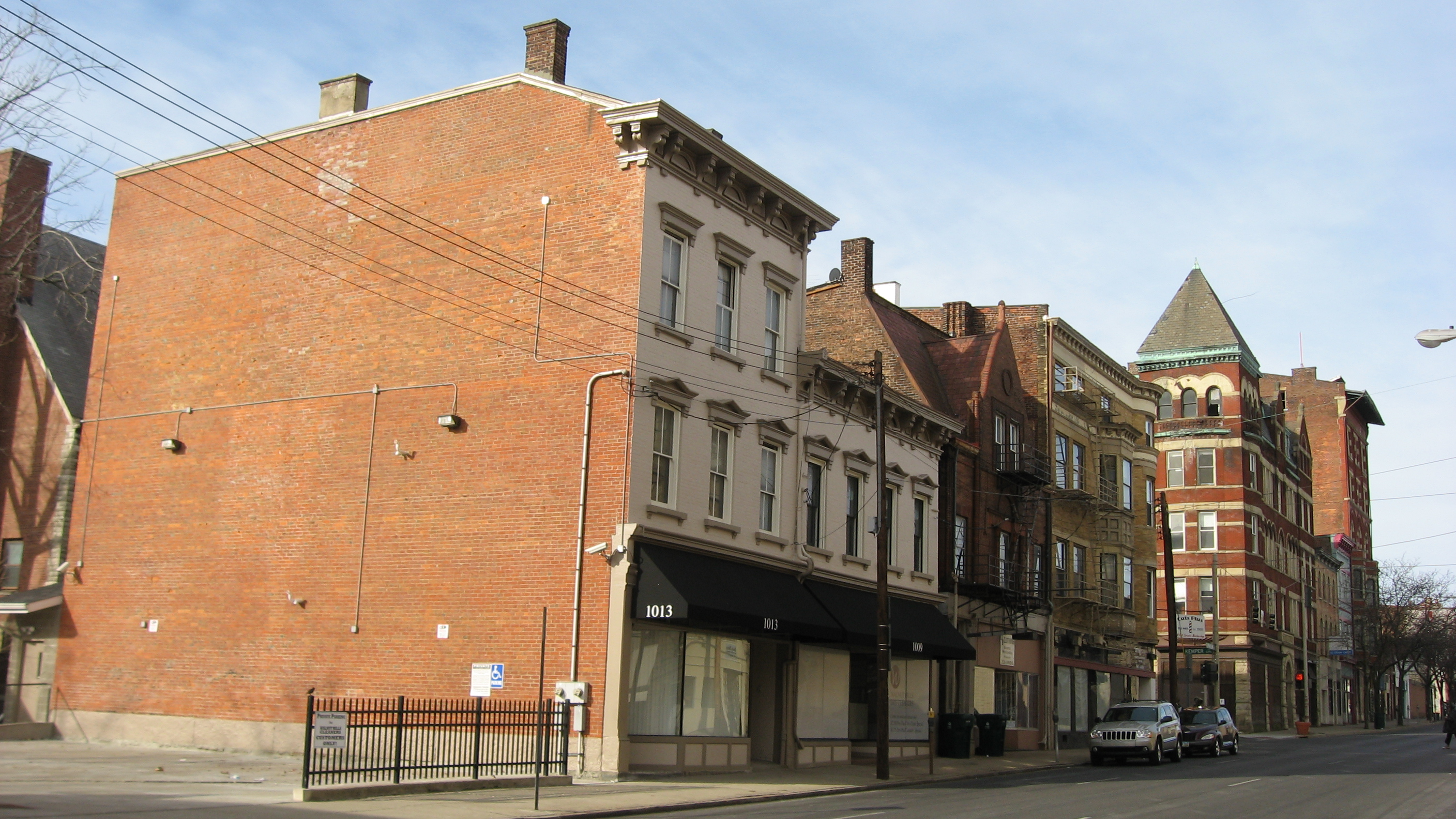 Buildings on the southern side of the 1000 block of E. McMillan Street in the Walnut Hills neighborhood of Cincinnati, Ohio, United States. This block is part of the Peeble's Corner Historic District, a historic district that is listed on the National Register of Historic Places.